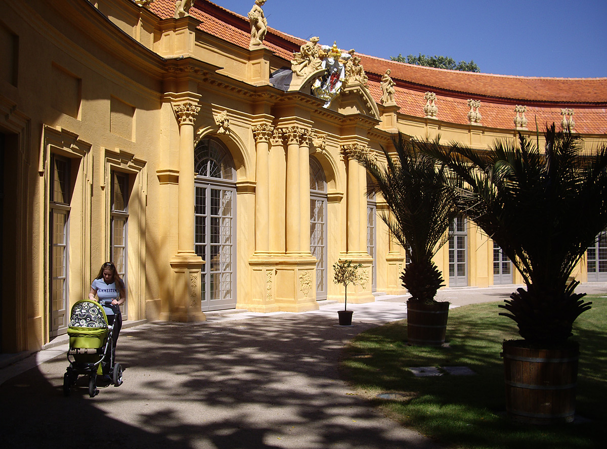 Orangery